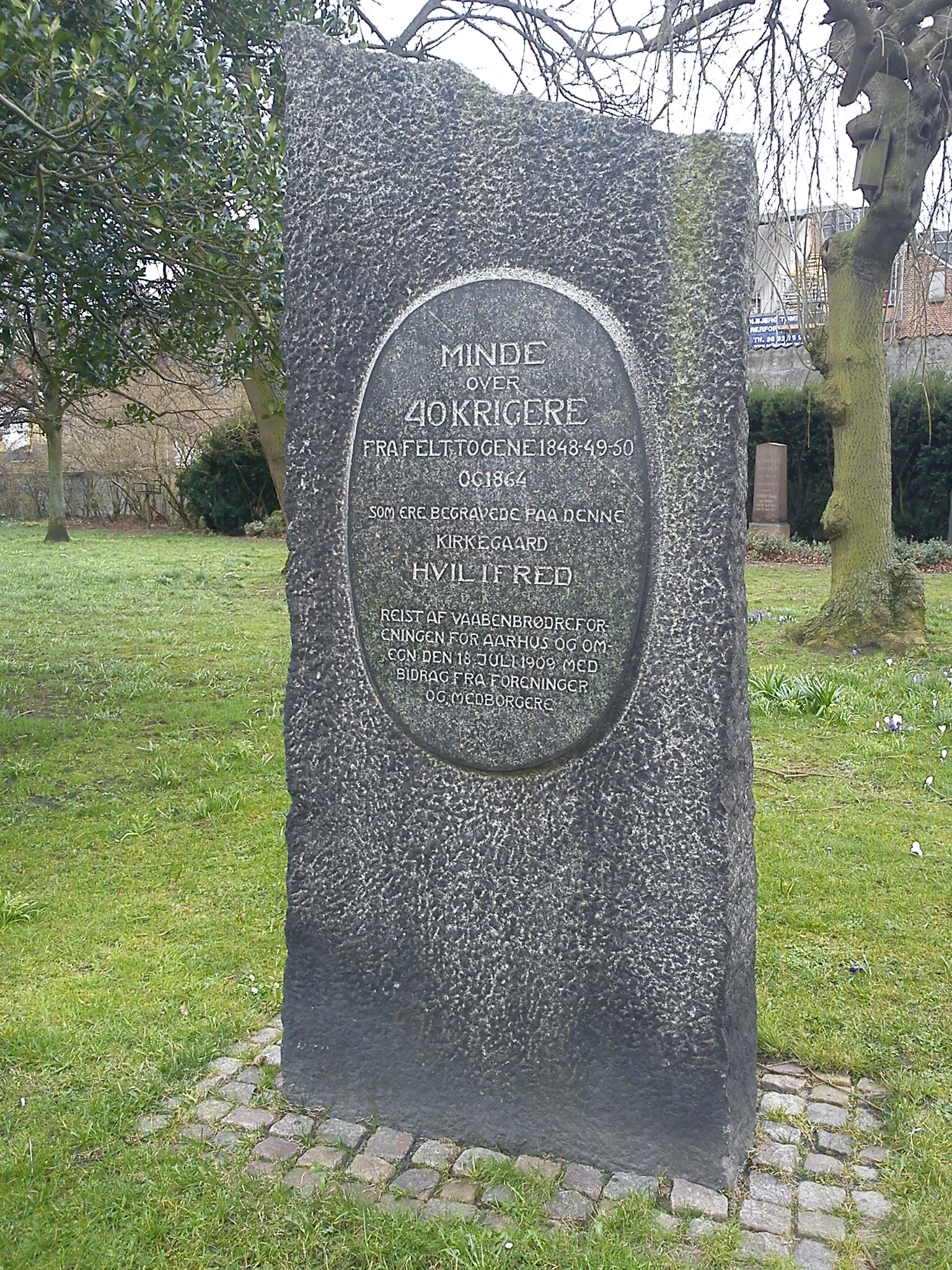 Memorial stone commemorating 40 dead Danish soldiers in the First and Second Schleswig War with Germany.